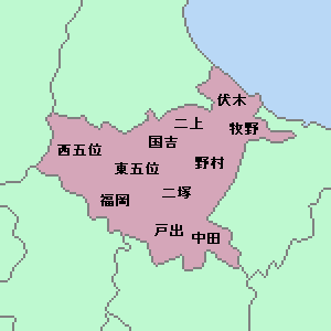 Map of Takaoka City.